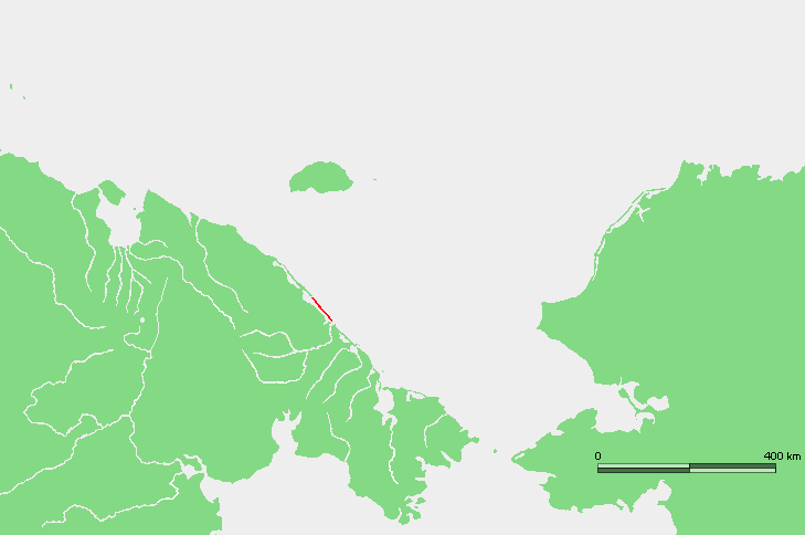 location map